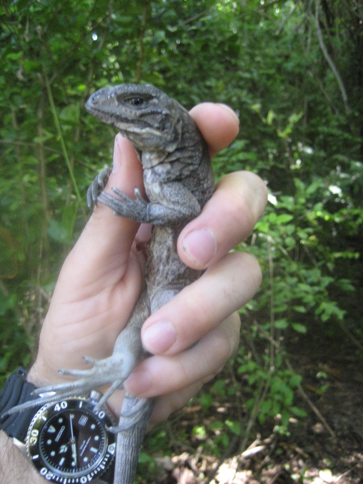 Mona ground iguana hatchling (Cyclura cornuta stejnegeri)